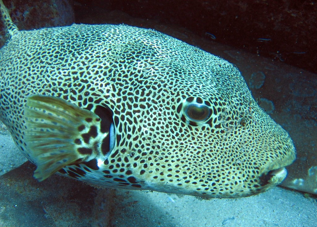 Portrait of a Starry Puffer (Arothron stellatus). Lady Jane Reef, South West Rocks, NSW181653927